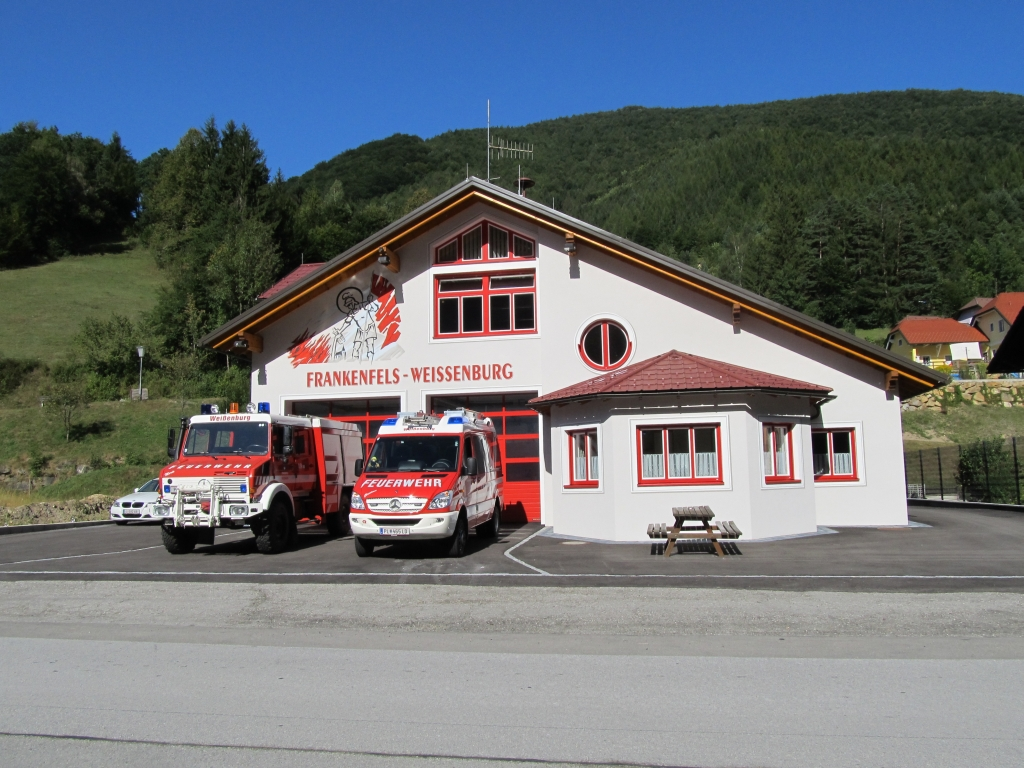 Fire brigade of the Freiwillige Feuerwehr Weißenburg with TLF-A and KLF-A